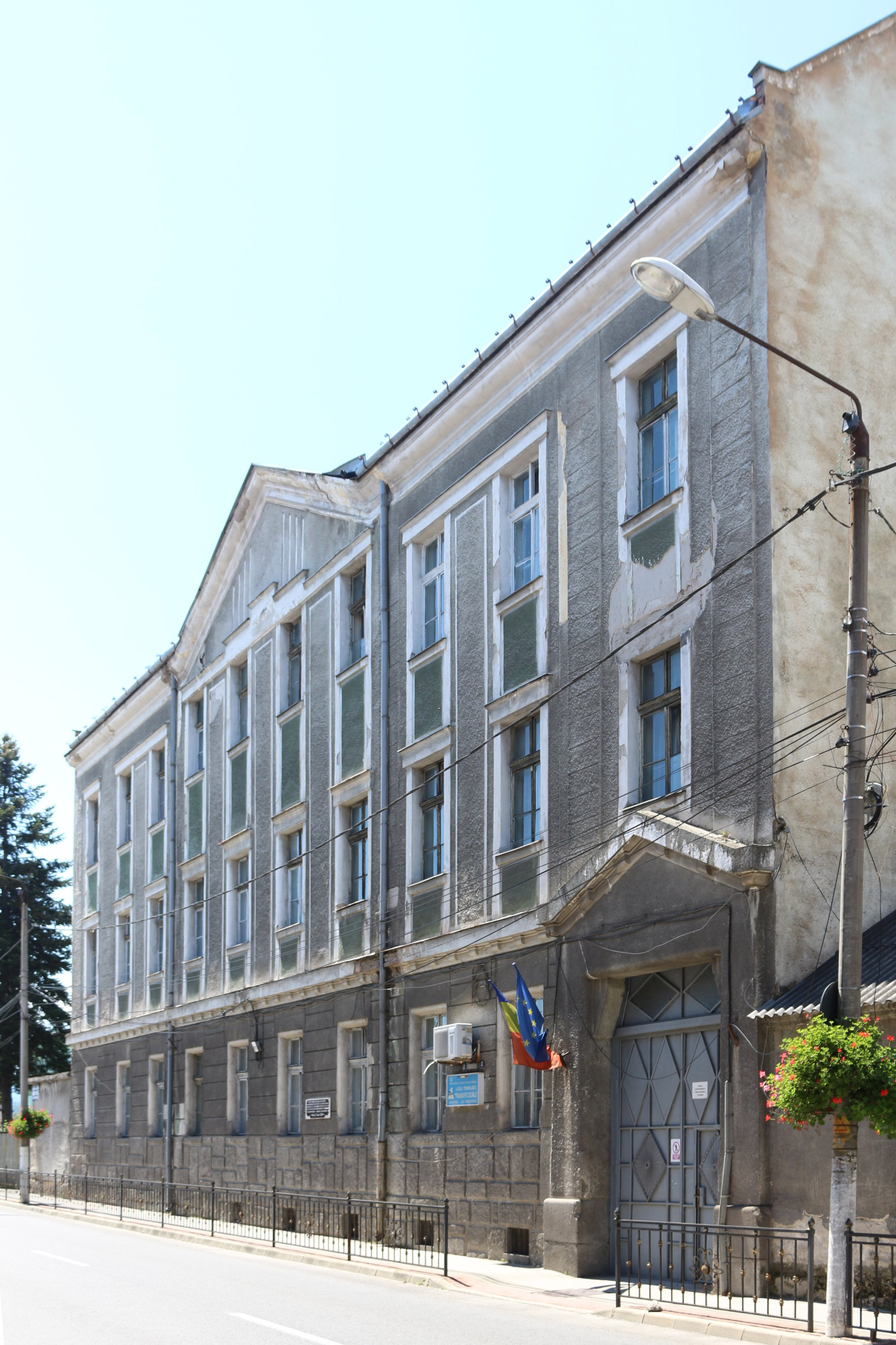 Former military tribunal and prison, now the headquarters of the Caransebeș Prosecutor's Office